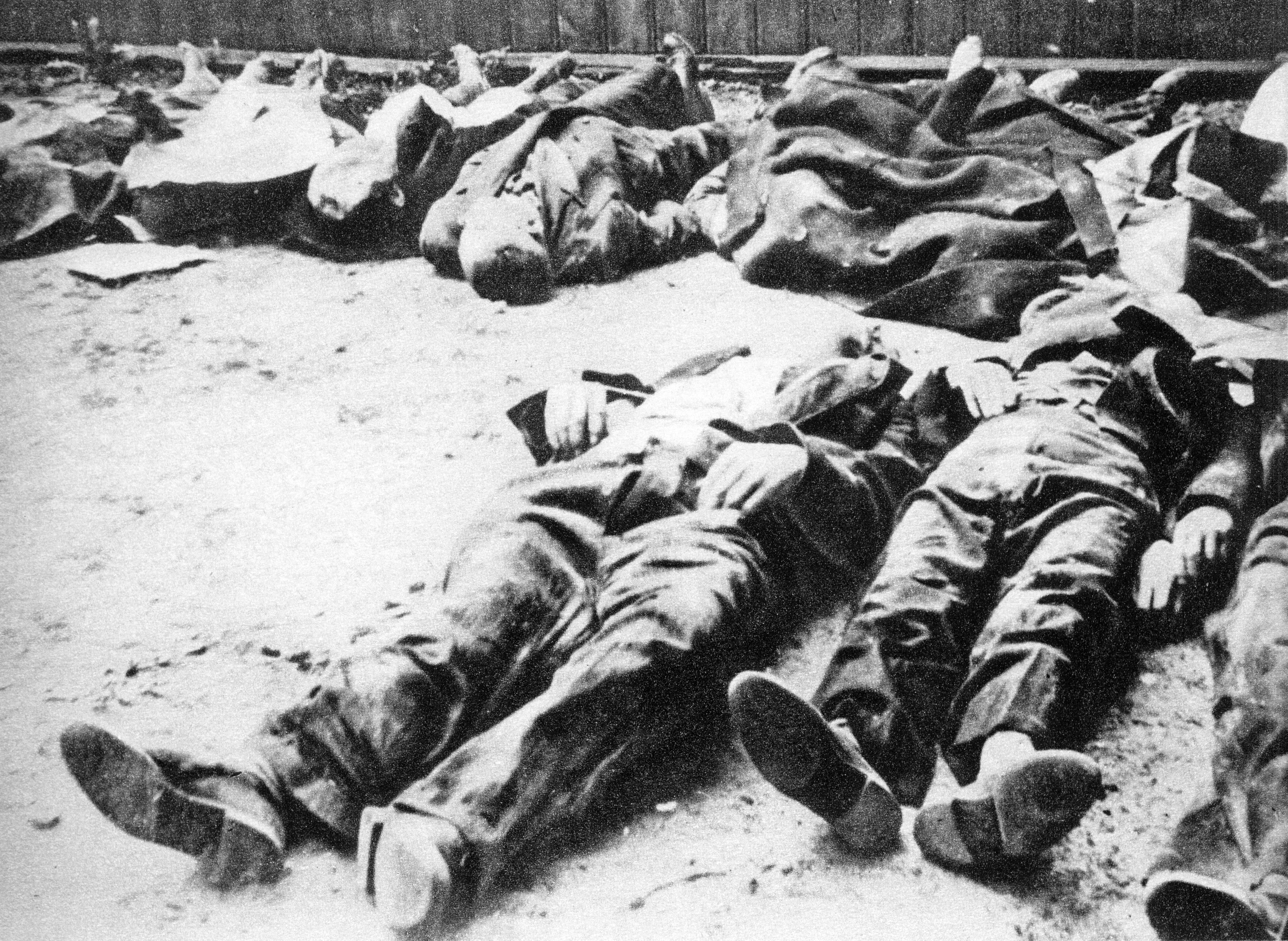 Polish civilians murdered by German troops during Warsaw Uprising. Photo taken in Warsaw's district Wola where SS troops murdered about 60 000 people during so called "Wola massacre" (first days of August 1944)